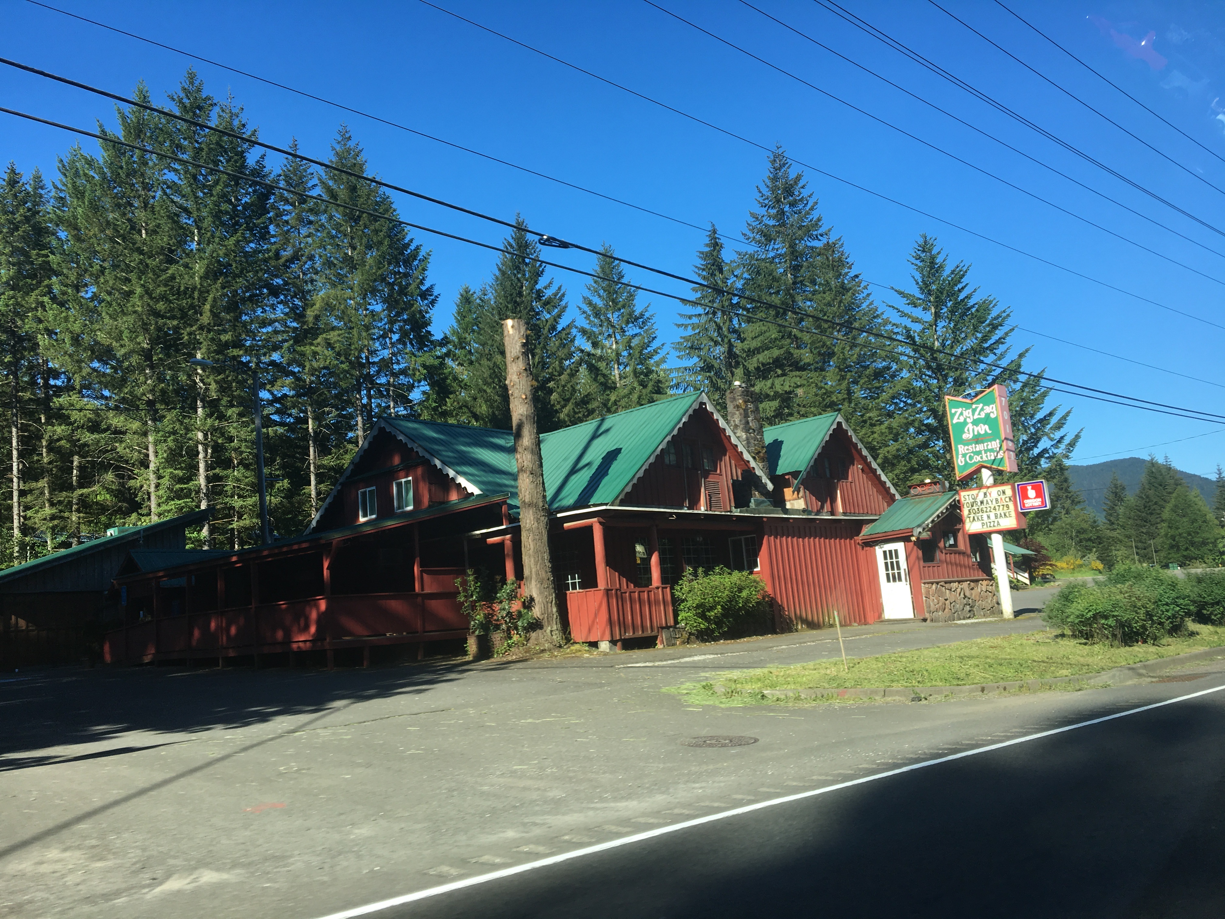 Zigzag Inn in Zigzag, OR